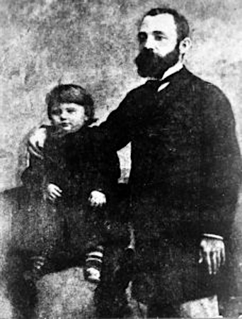 Vassil Kanchov with daughter Nevena